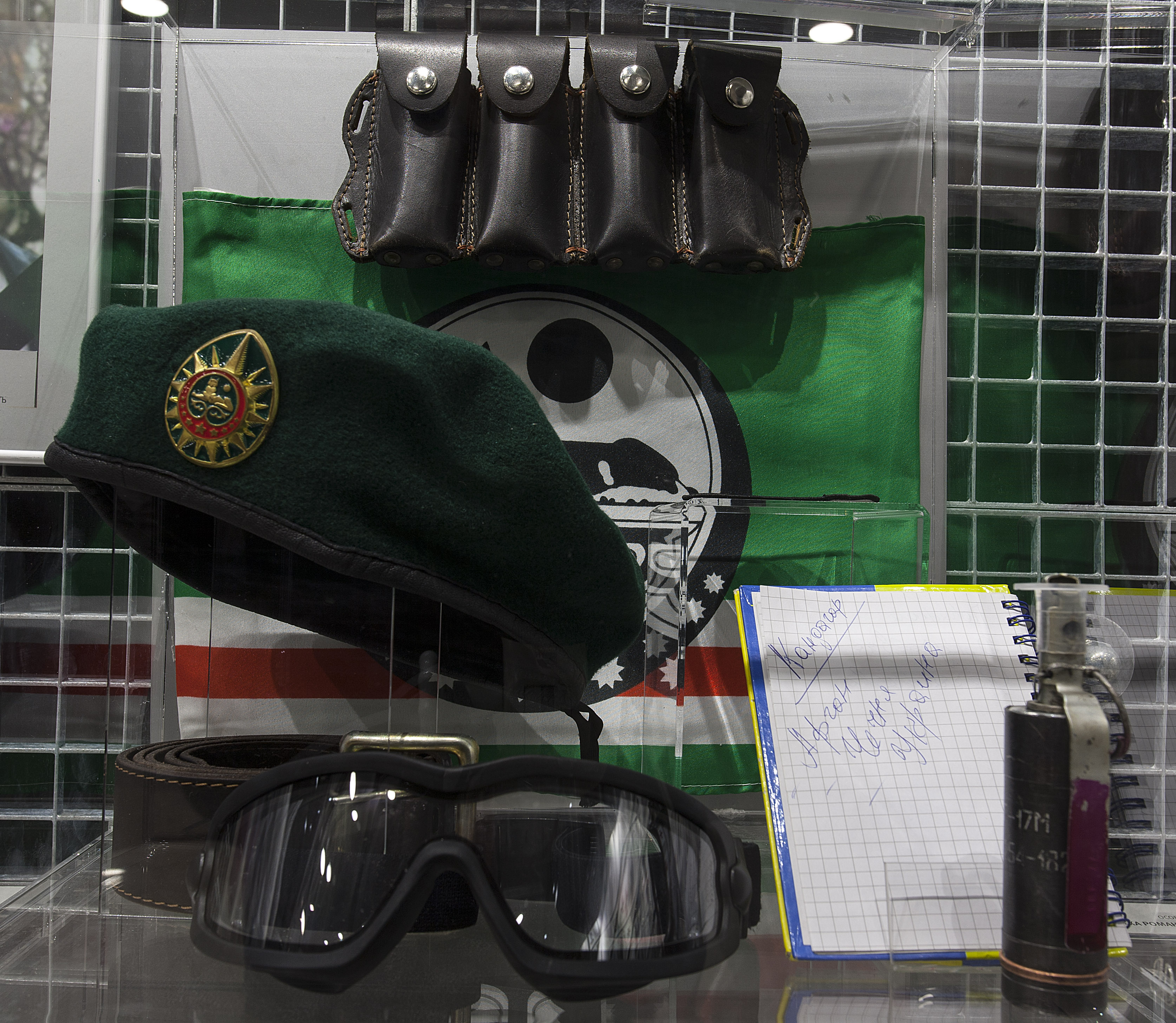 Isa Munayev